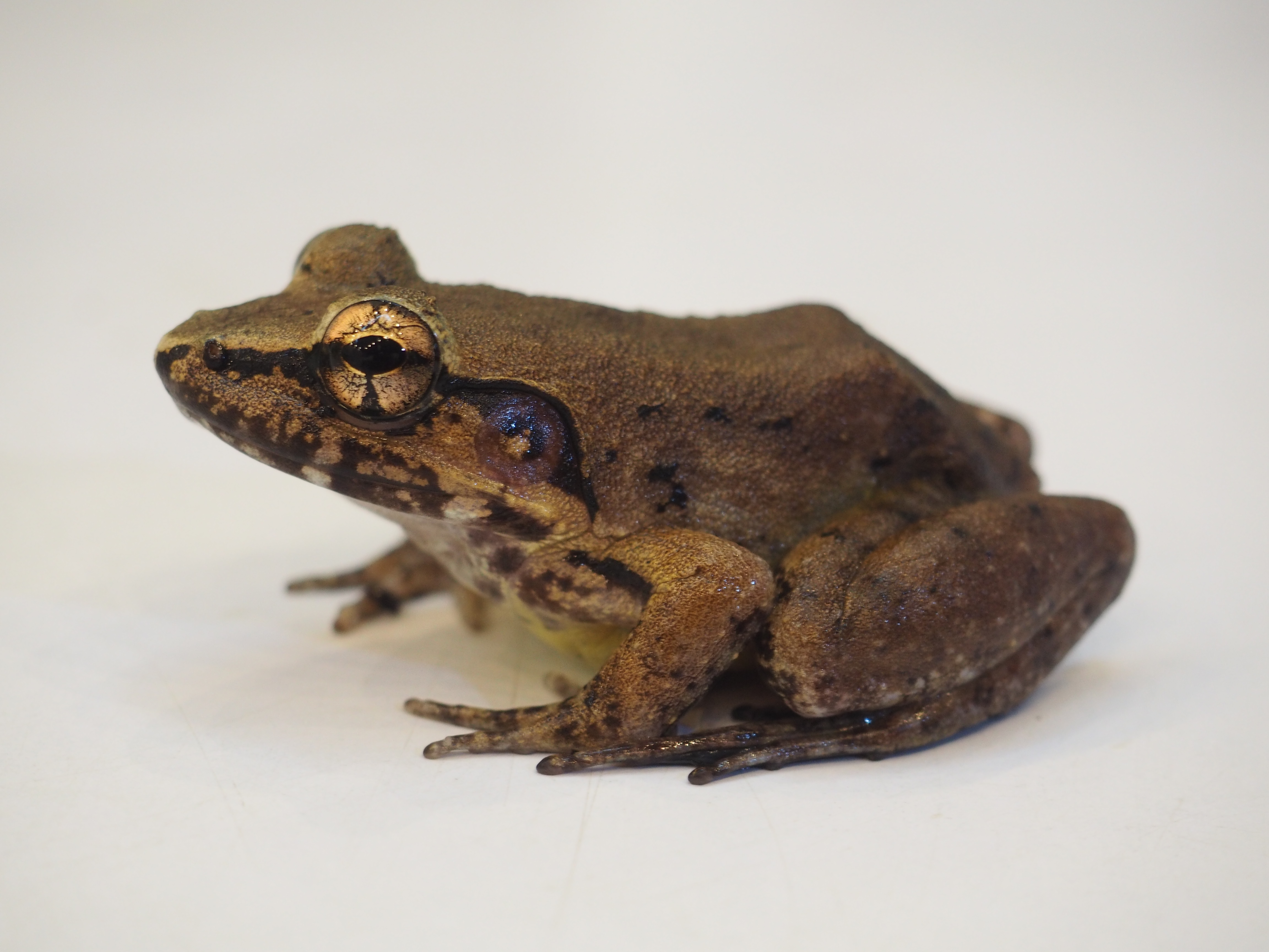 Limnonectes paramacrodon from southern Thailand